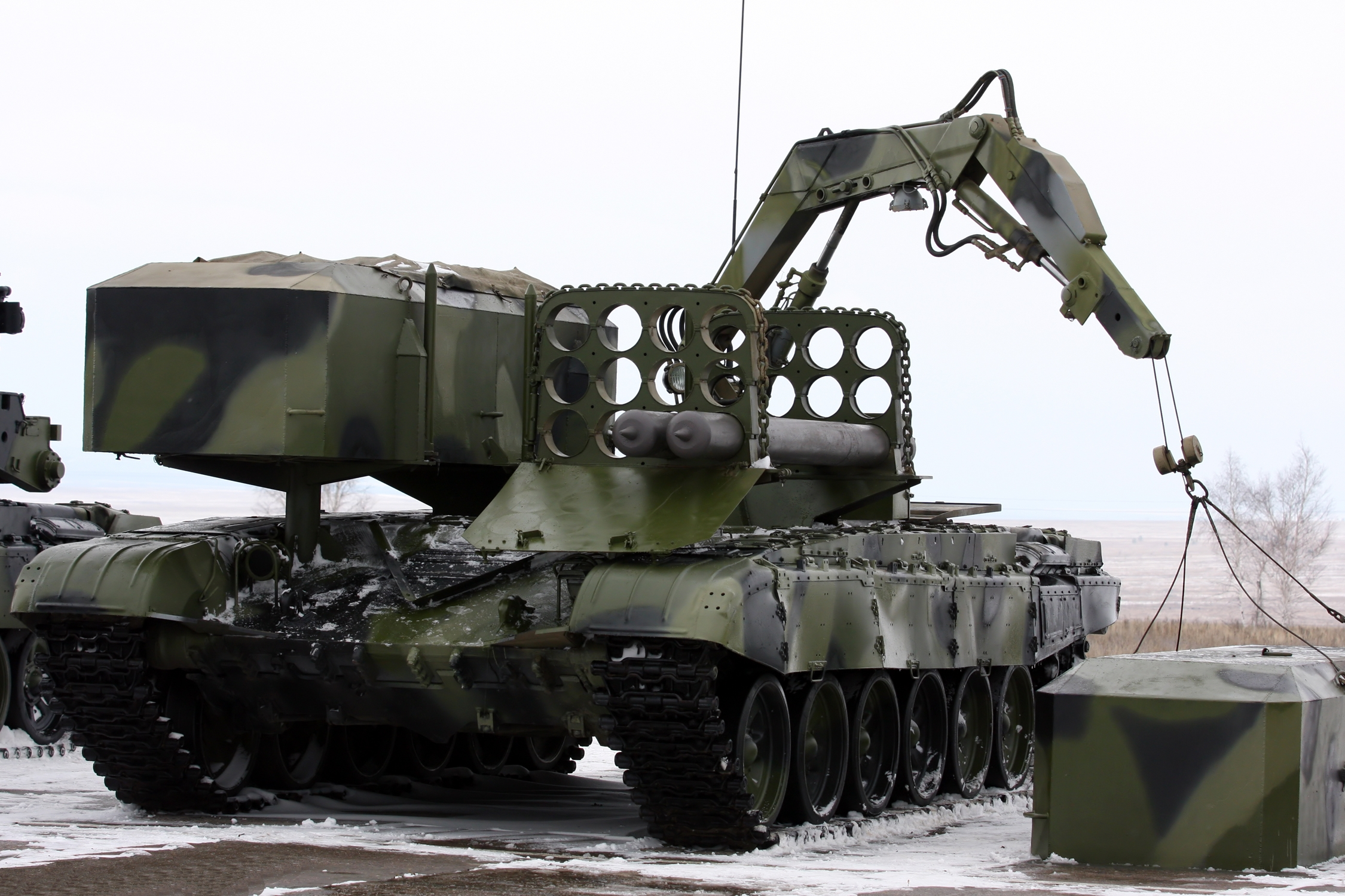 Reloading vehicle TZM-T of the TOS-1A system.